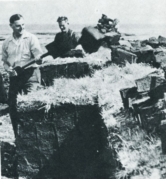 Falkland Islanders shoveling peat (ca 1950).